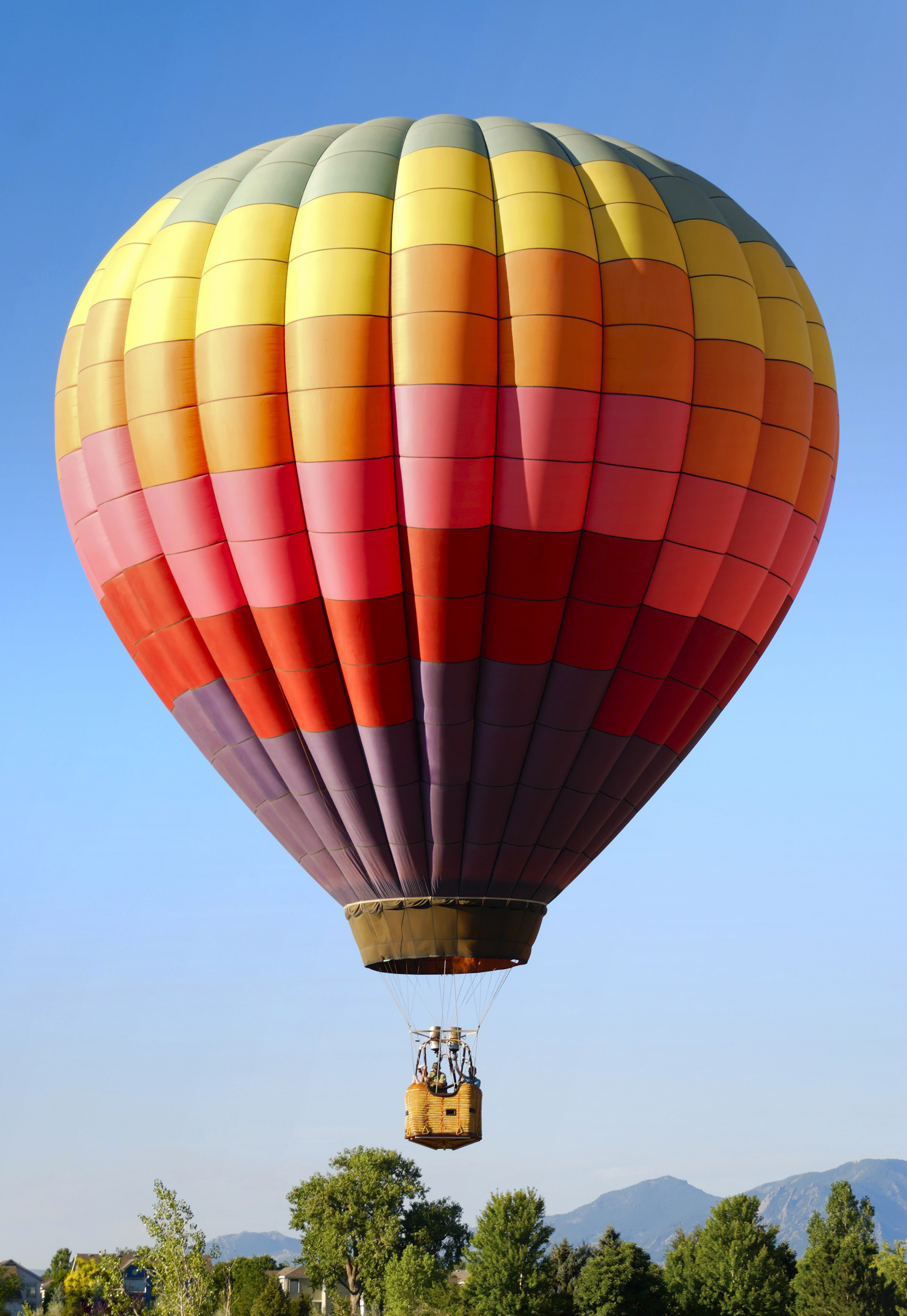 Need to send one at a later date